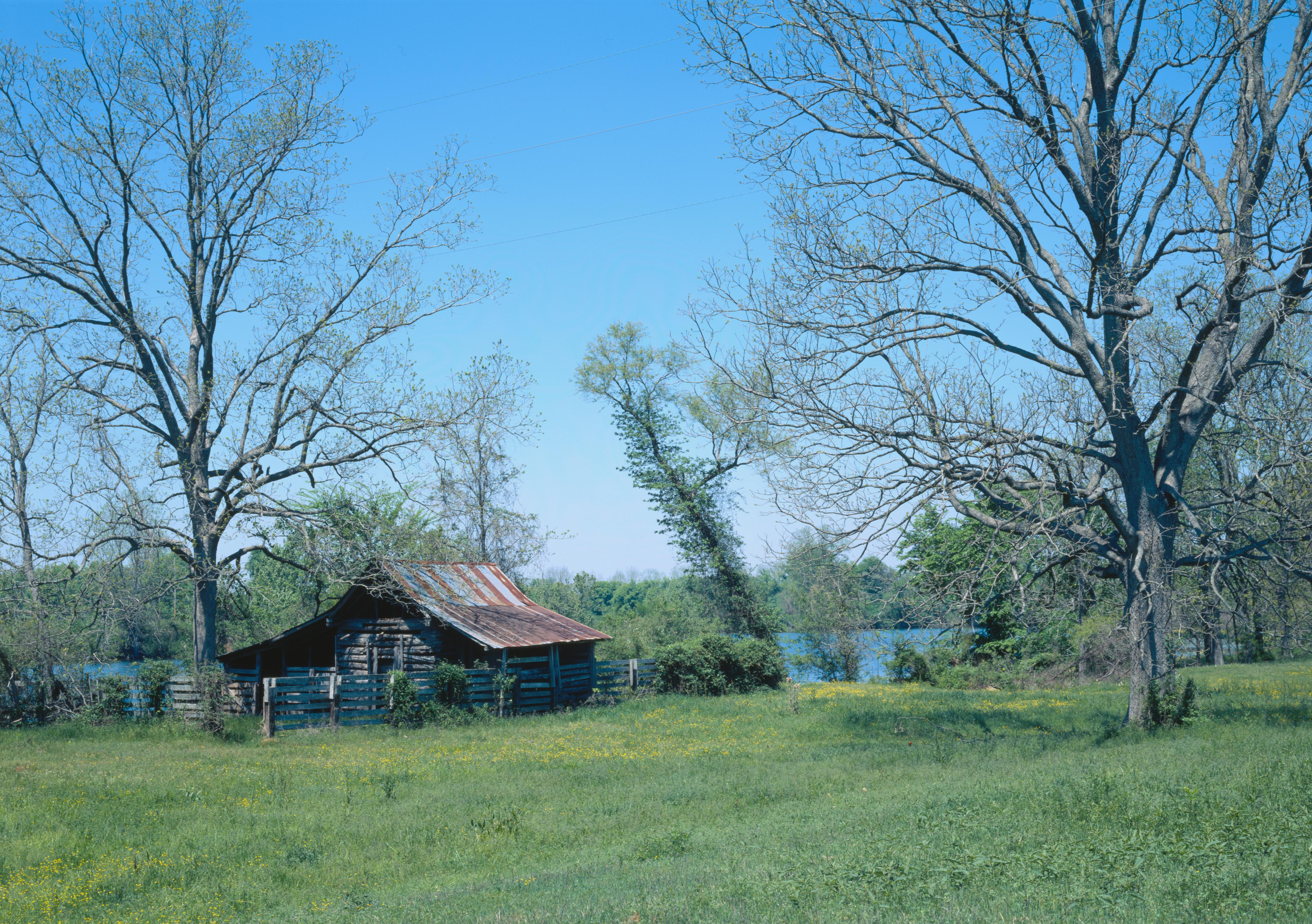 Log house in the Cane River Creole National Historical Park, located near Natchez in Natchitoches Parish, Louisiana, United States. The park is listed on the National Register of Historic Places.